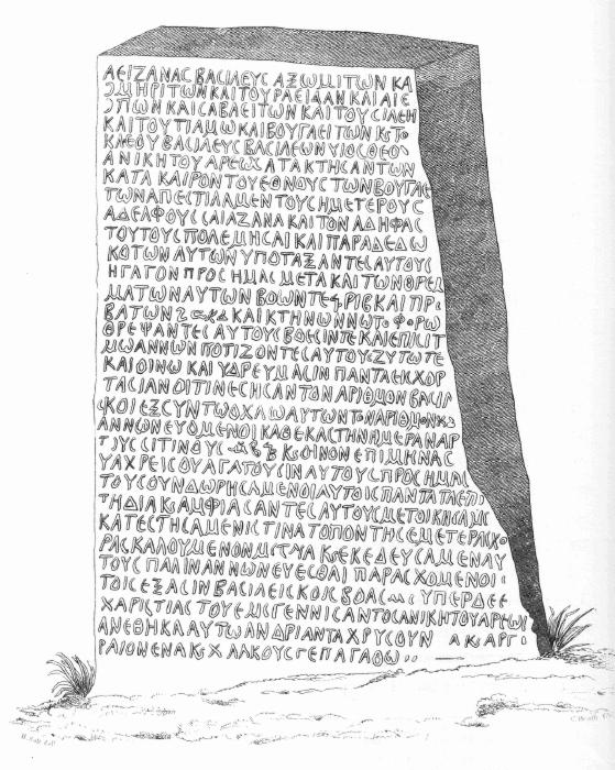 Inscription of Ezana of Axum, as drawn by Henry Salt.